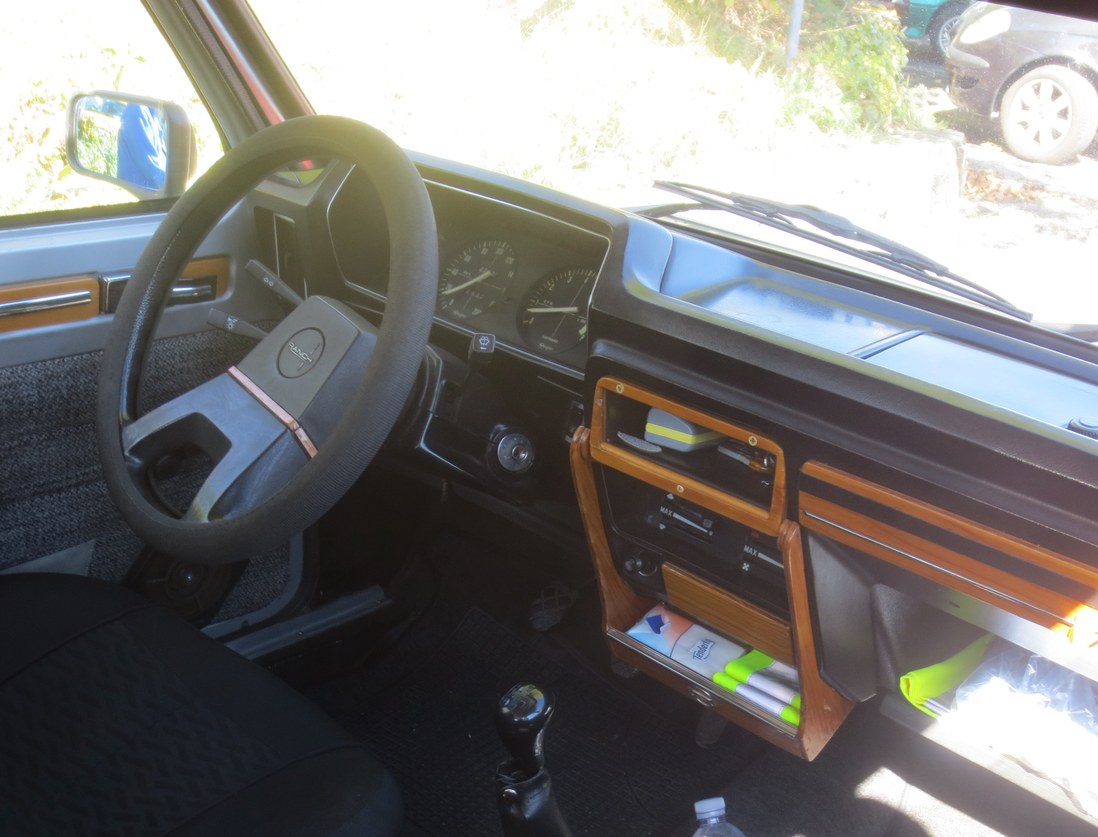 Subject: Matra-Simca Rancho (dashboard view) Author: Luc106 Date:October 3rd, 2015 Event: Matra Meeting Place/Country: Repubblica di San Marino (RSM) I release all rights in the public domain. Licensing